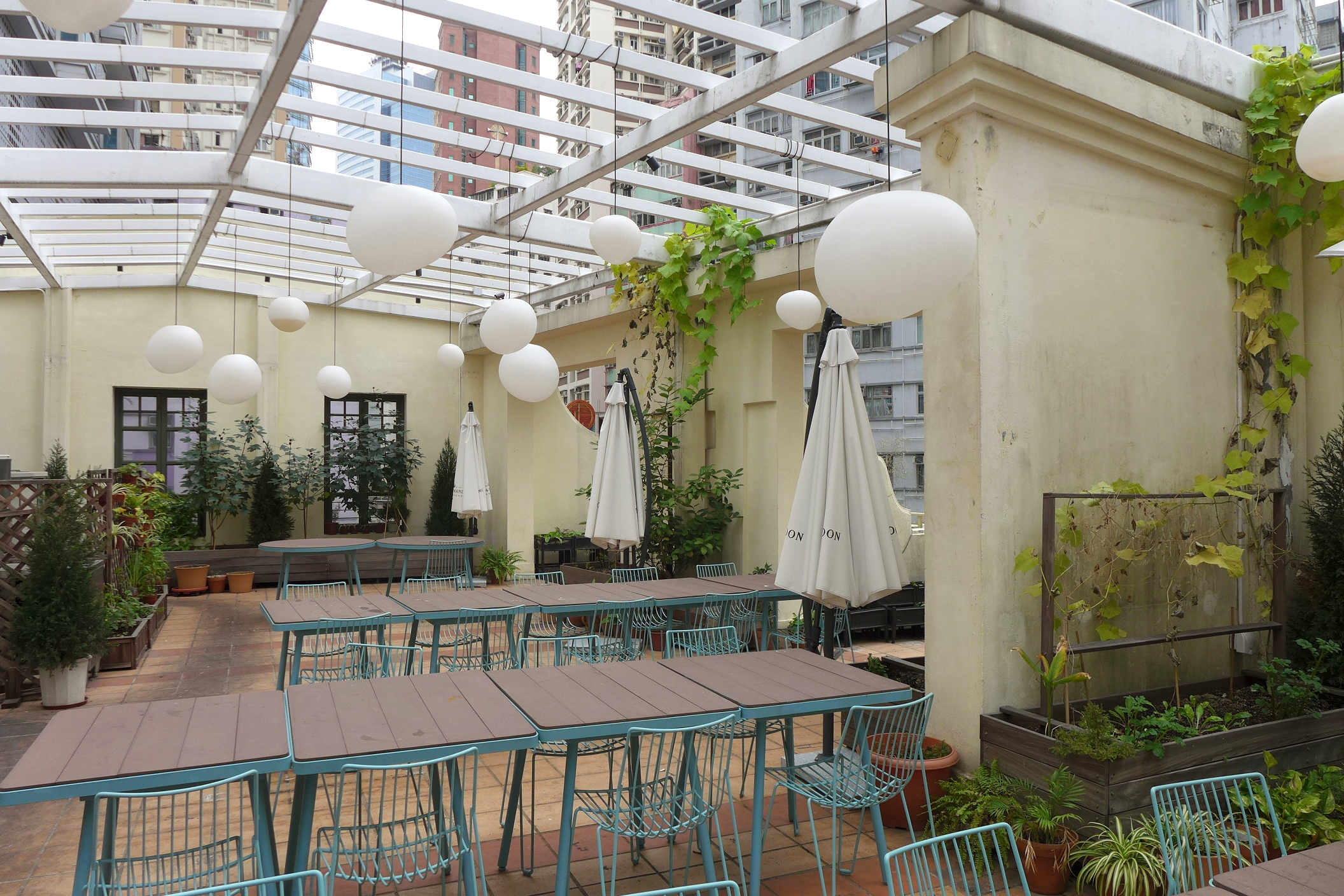 Wo Cheong Pawn Shop Roof Garden